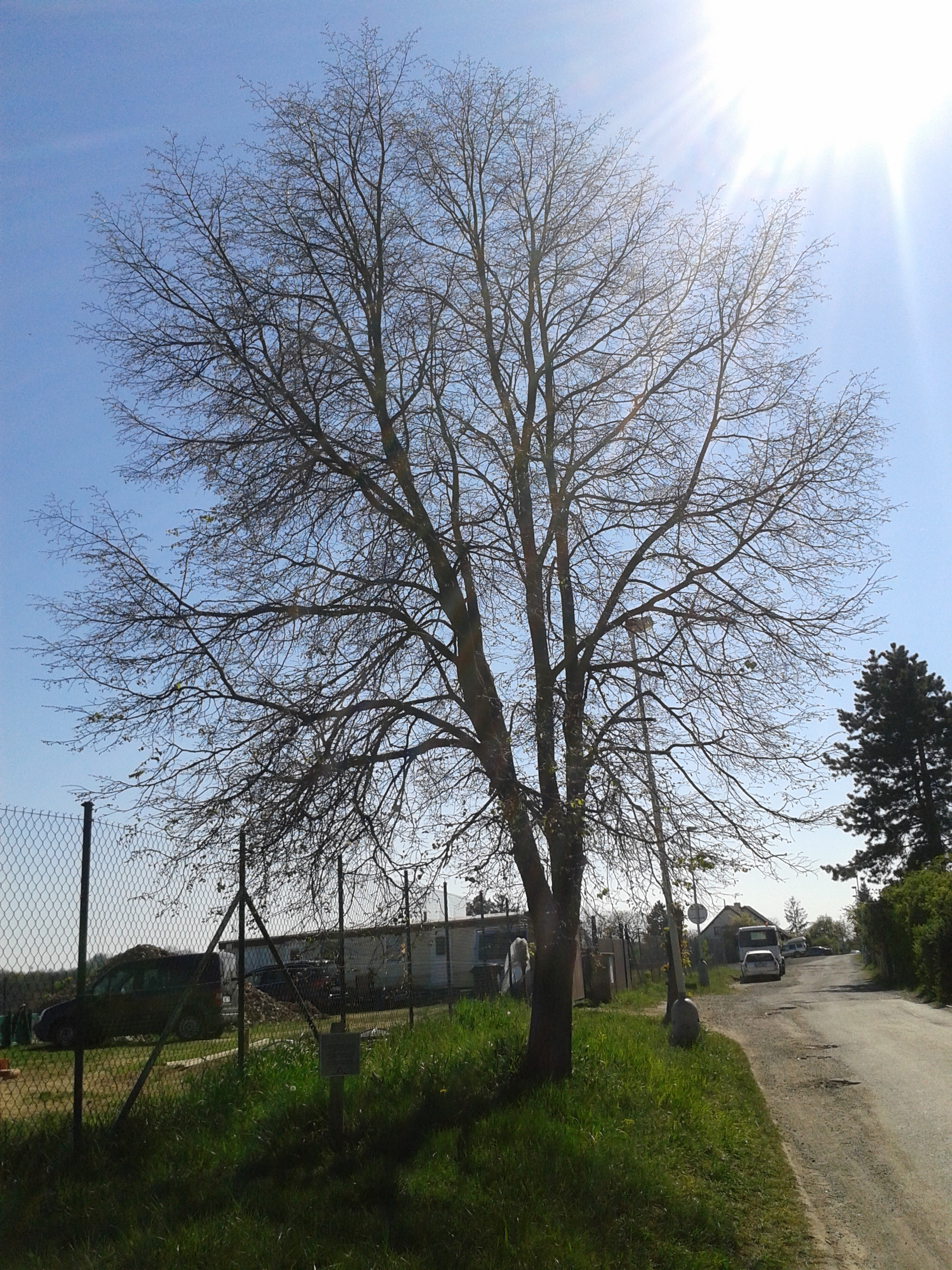 Small-leaved linden planted by Karel Pech in Točná with a commemorative plaque next to it in the Starý lis street